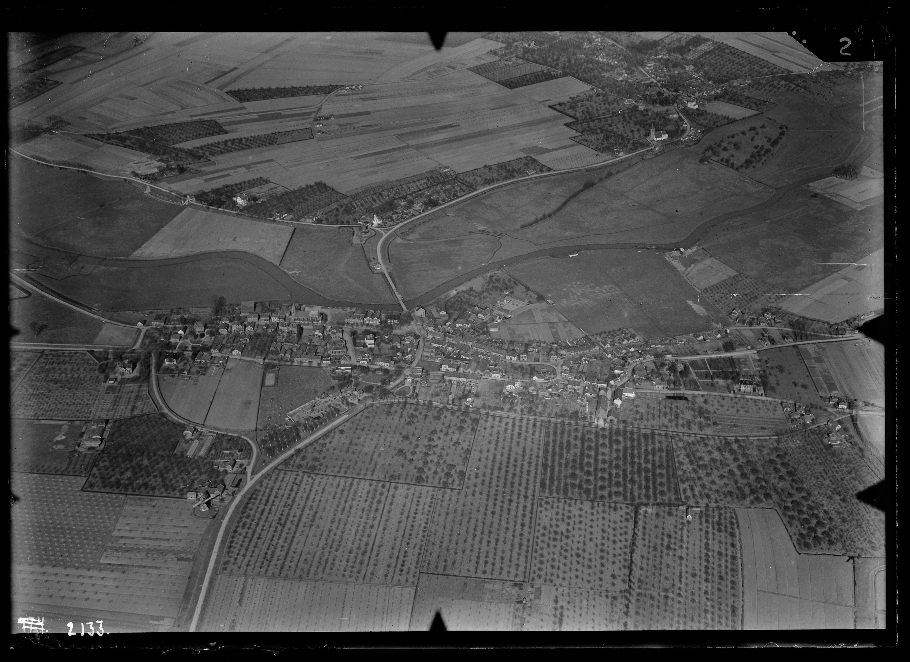 Aerial photograph of Geldermalsen, The Netherlands